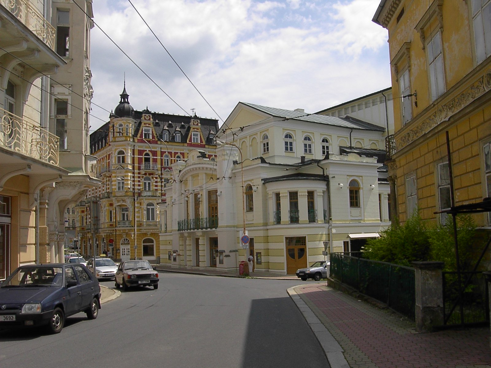 Theatre in Mariánské Lázně.